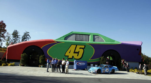 President George W. Bush, second from left, is joined at Adam's Race Shop on the grounds of Victory Junction Gang Camp, Inc., in Randleman, N.C., by NASCAR drivers, from left: Kyle Petty, Richard Petty, Michael Waltrip and Jimmie Johnson. Pattie Petty, who founded the camp for kids with chronic conditions with husband Kyle, is at center. White House photo by Paul Morse